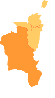 Map of Huaibei in Anhui province.